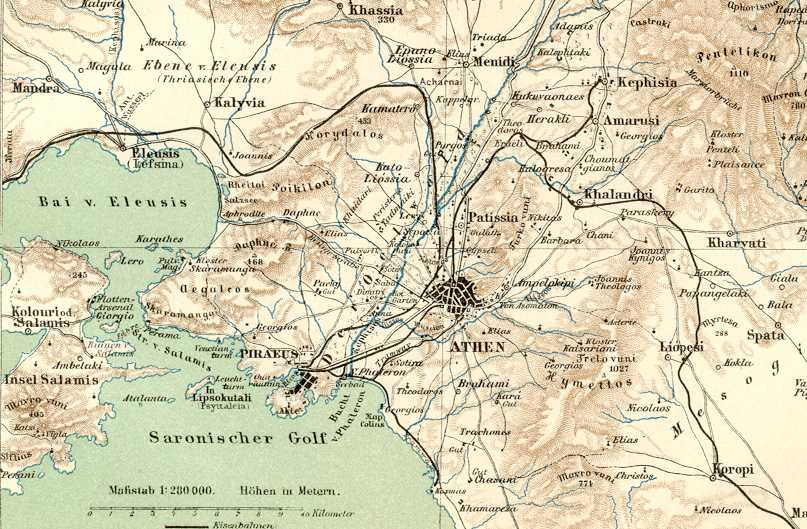 Map of Athens and Piraeus area, Greece.